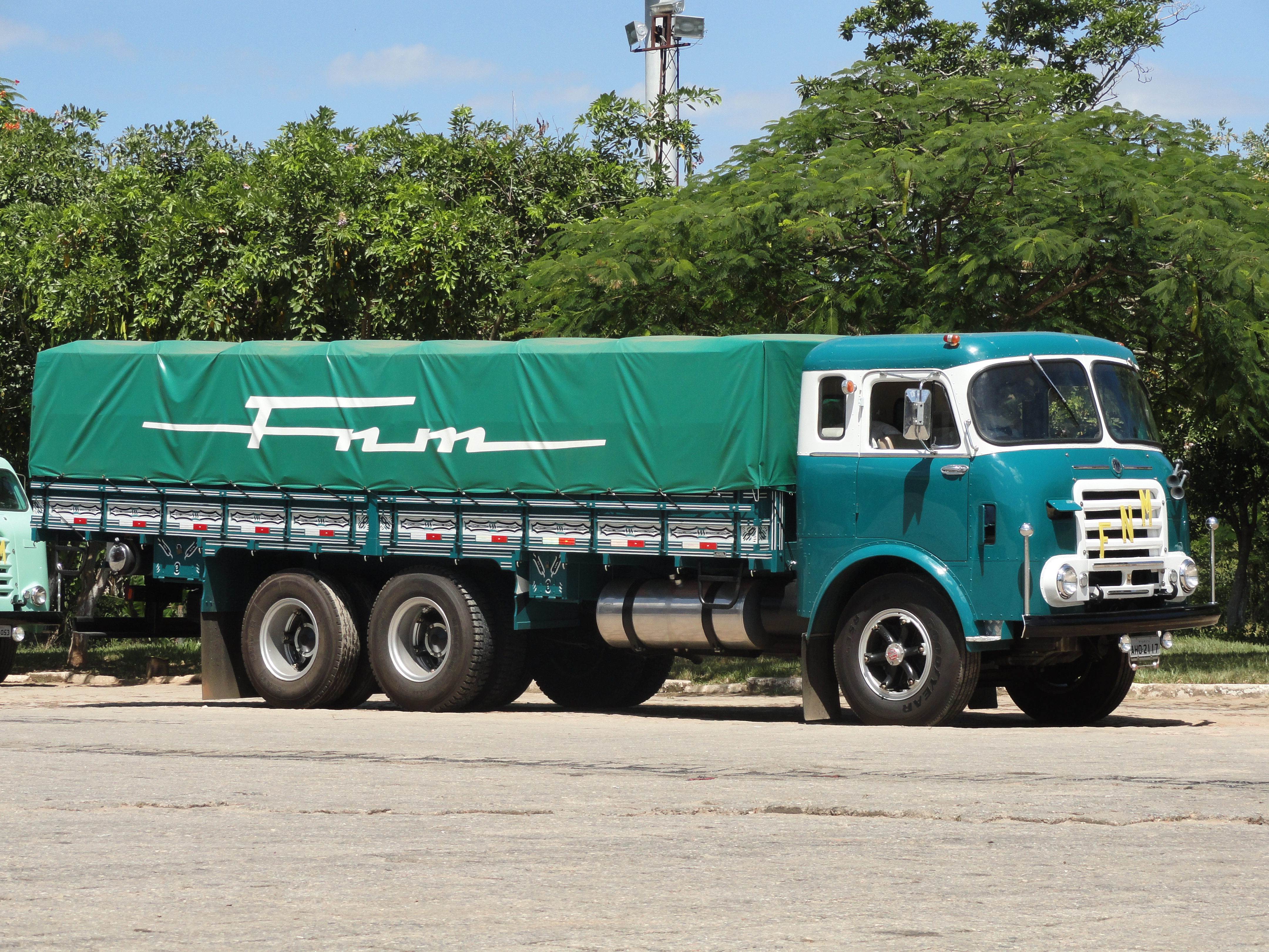 FNM D-11.000 with Brasinca cab. Truck made in Brazil in 1961, by Fábrica Nacional de Motores.